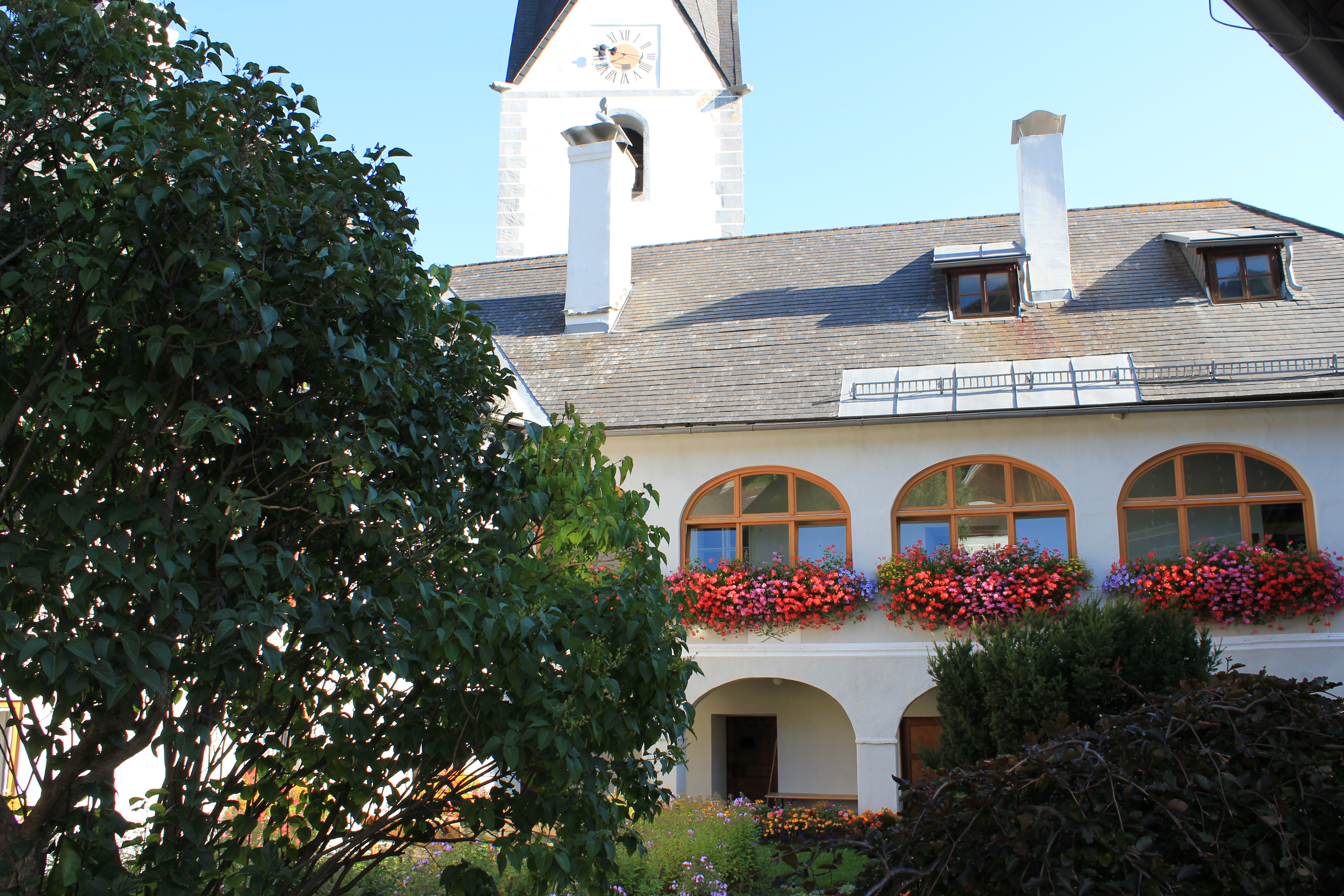 Rectory of Sankt Peter im Katschtal in the community of Rennweg am Katschberg